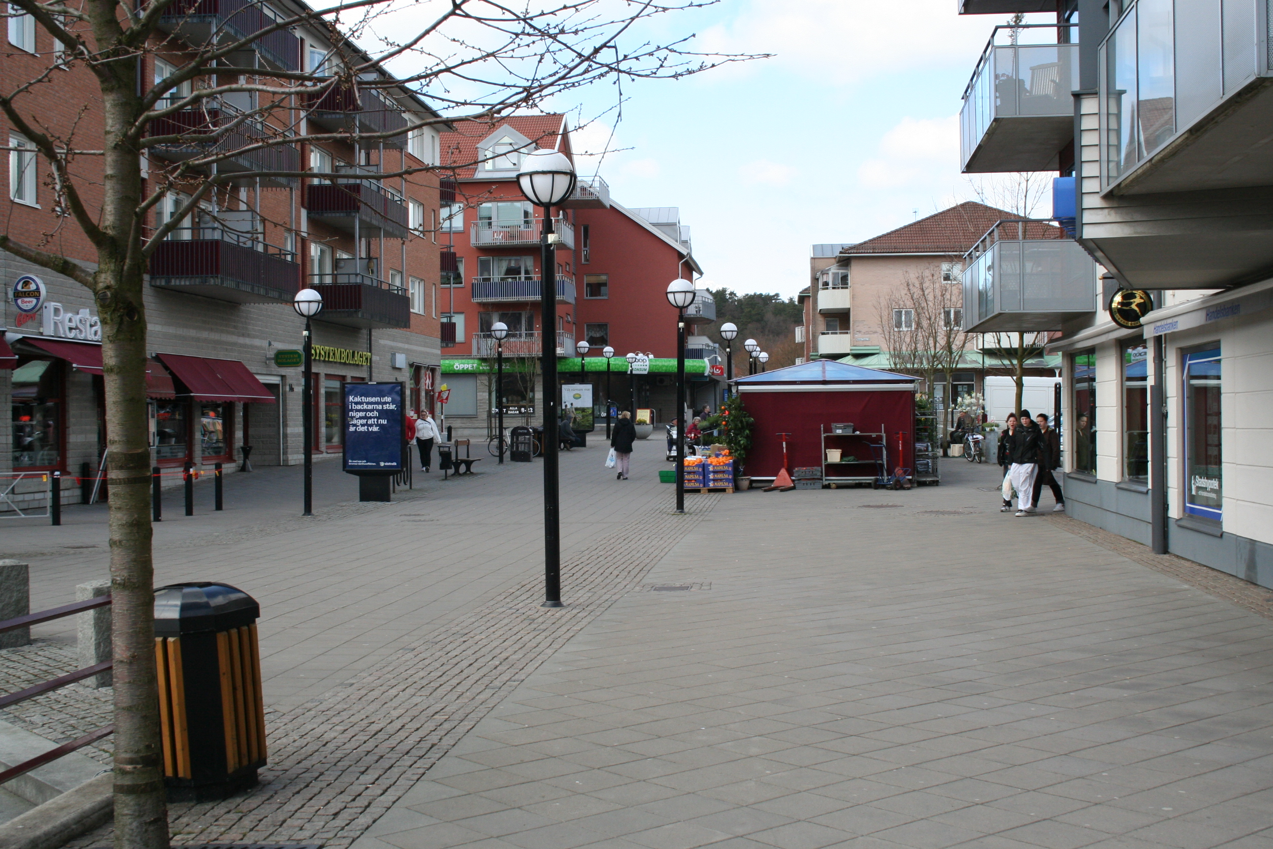 Mölnlycke downtown, Sweden